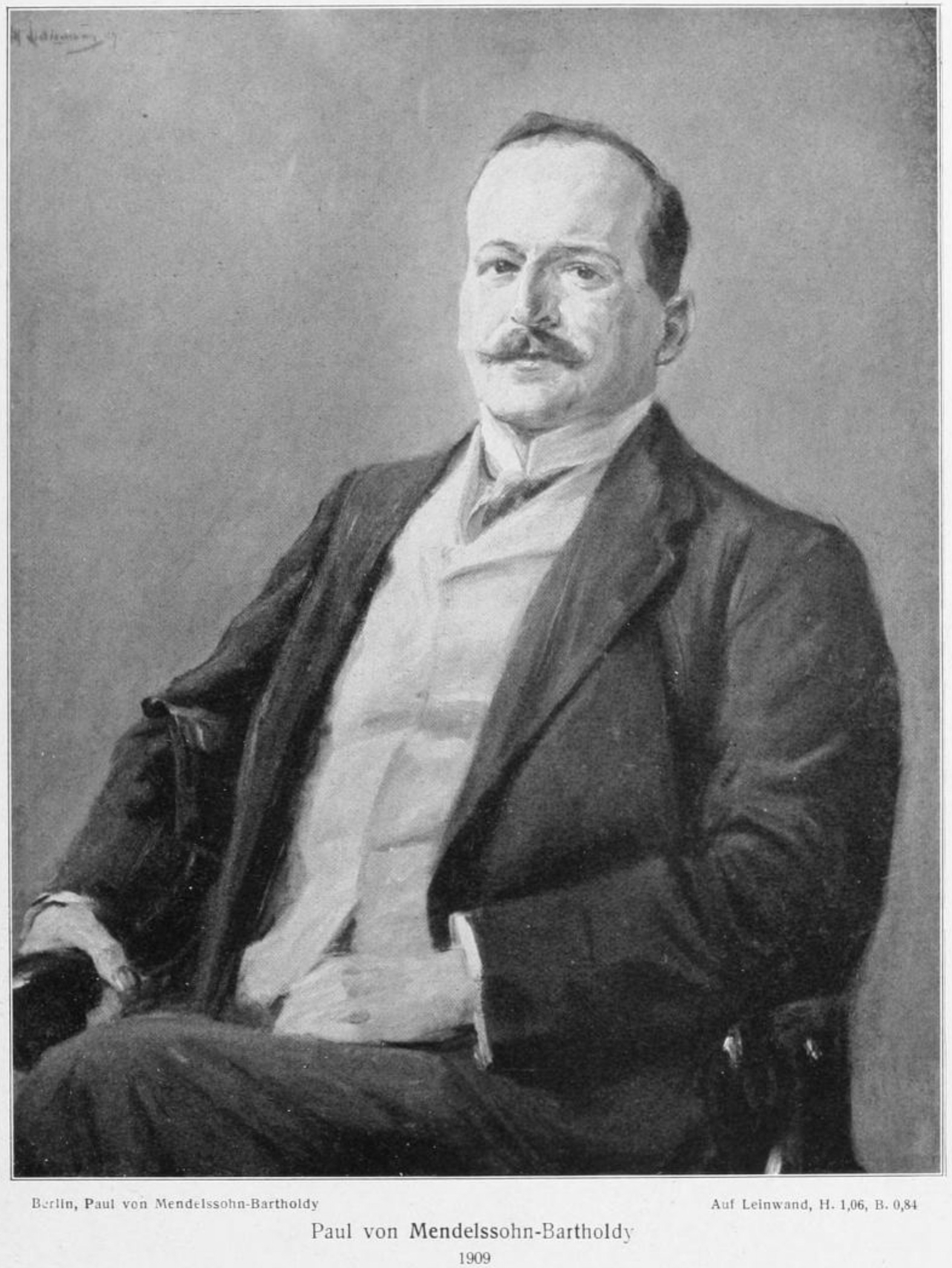 Paul von Mendelssohn-Bartholdy painted by Max Liebermann